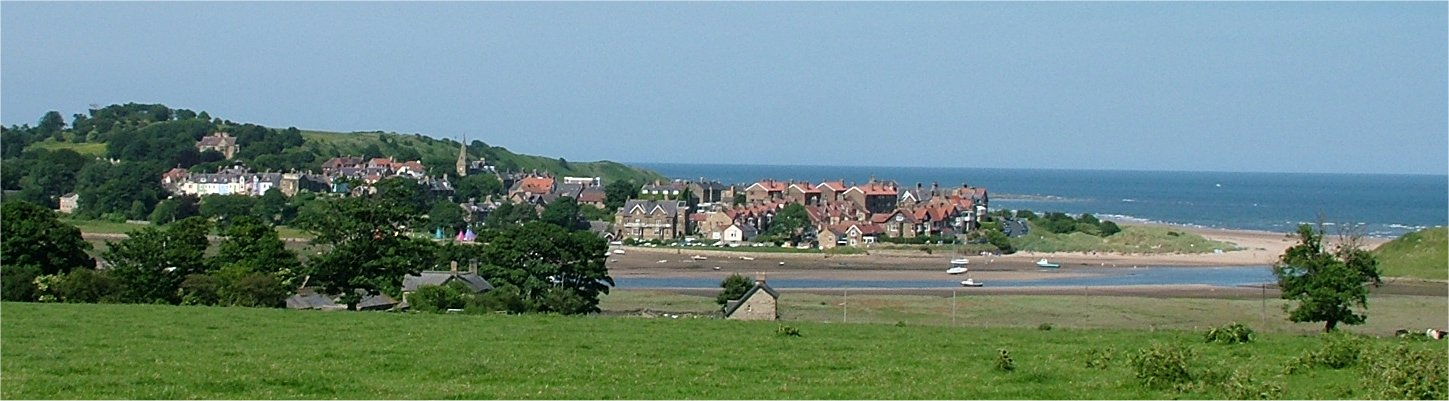 Alnmouth, Northumberland. By and copyright Tagishsimon, 25th June 2005